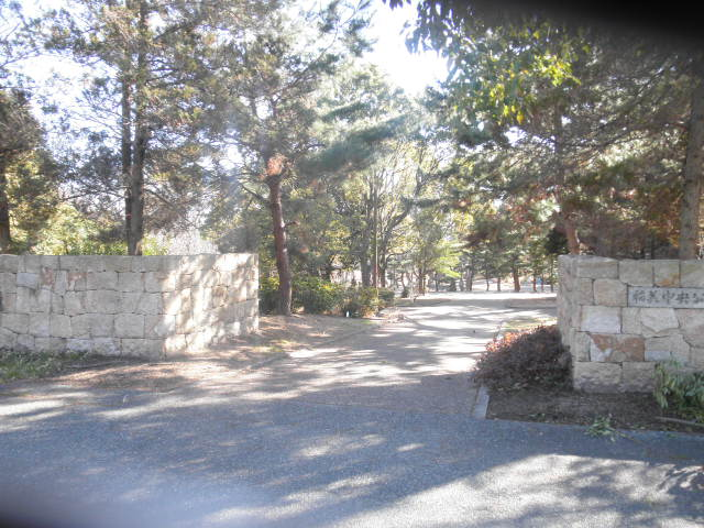 Inami chuo park entrance